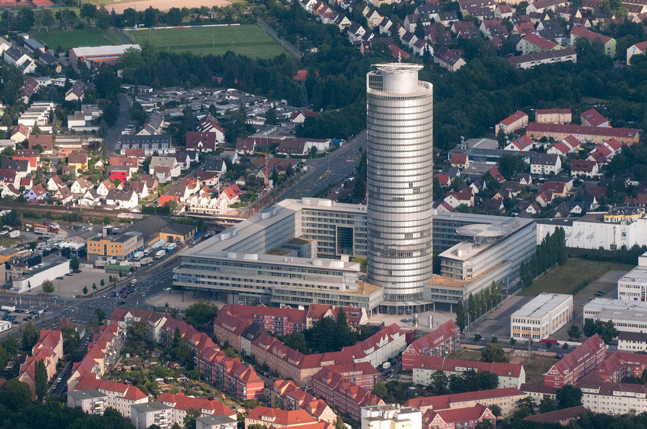 Aerial photography of the Business-Tower in Nuremberg, Germany